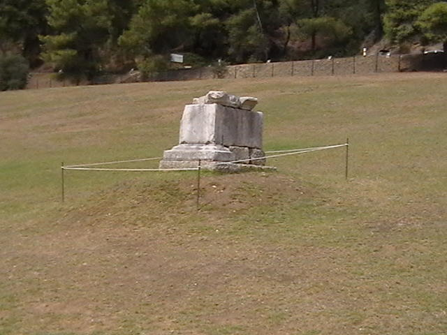 The altar of Demeter Hamyne at Olympia, Greece. The altar is situated on the north embankment of the stadium.